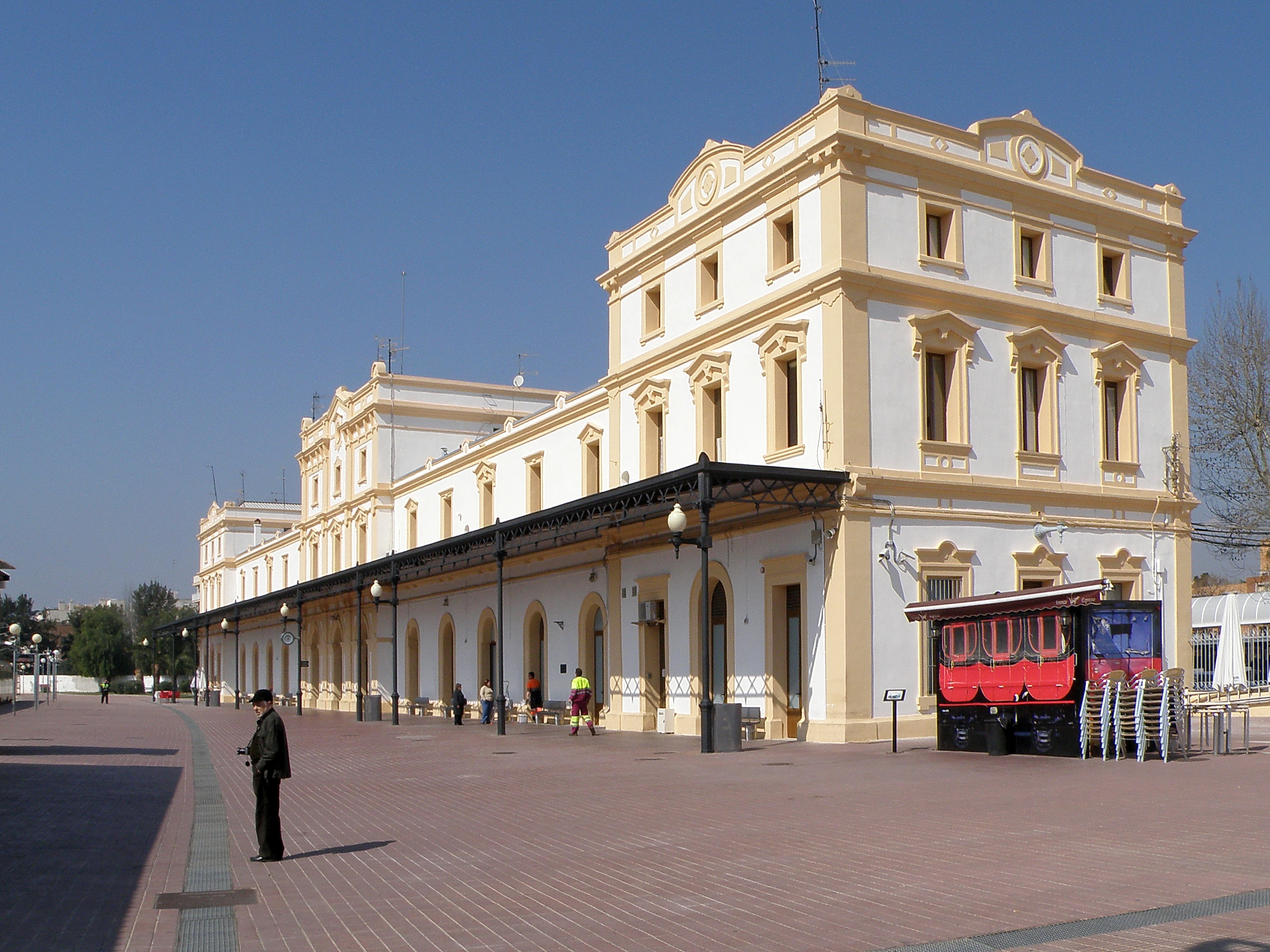 Railwaystation Vilanova i la Geltrú